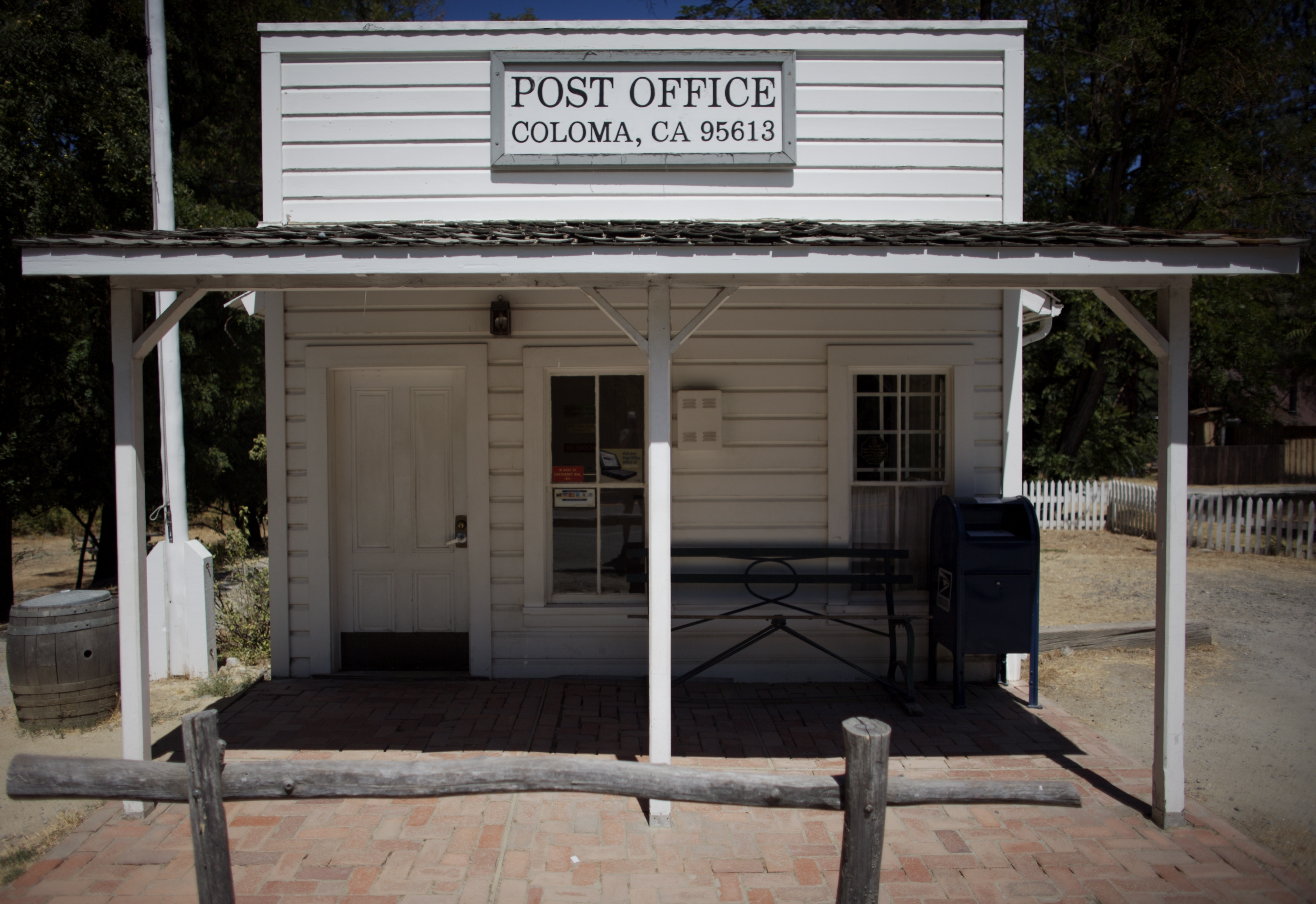 Post office in Coloma — El Dorado County, California.